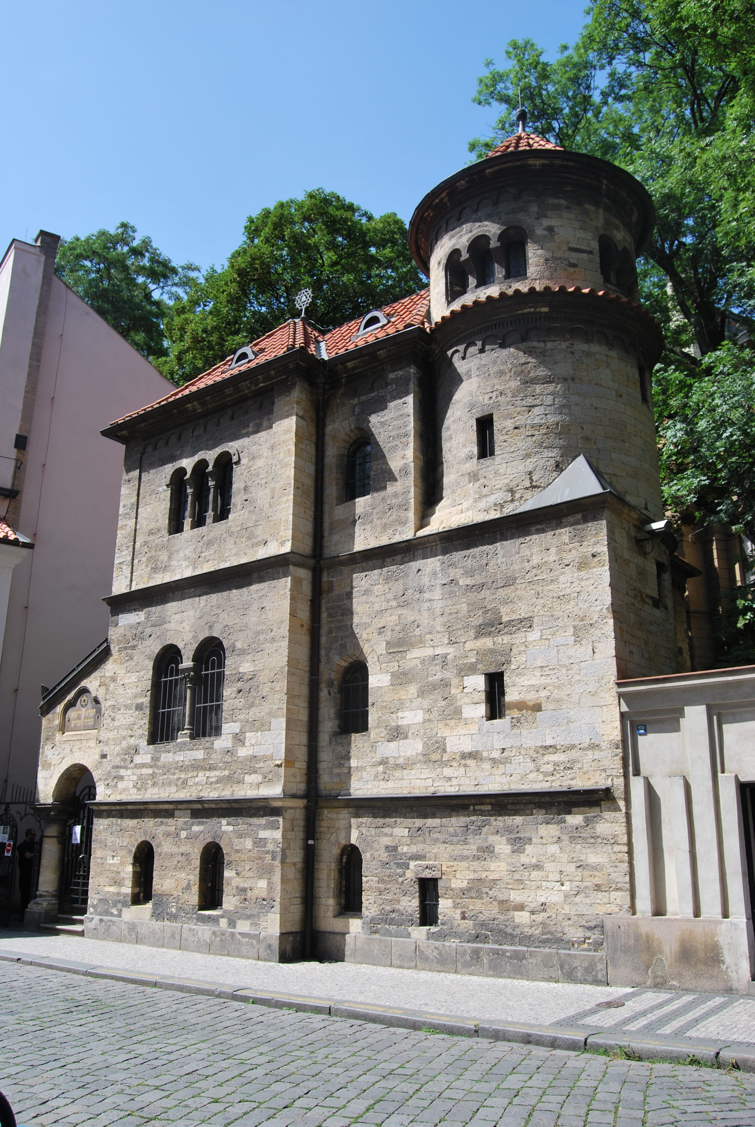 חברה קדישא בפראג